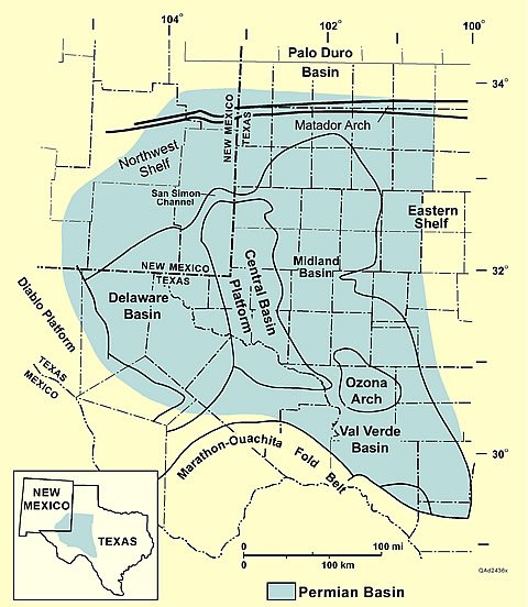 Permian Basin